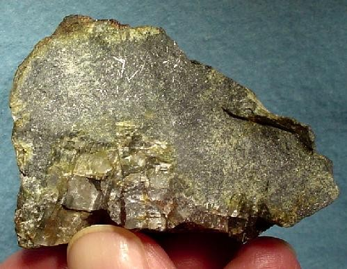 Tellurium, Baryte Locality: Teine mine, Sapporo, Hokkaido Island, Japan (Locality at ) Size: 5.7 x 4.1 x 2.1 cm. This is an extremely rich specimen of native tellurium, in metallic-bright needles or as sparkly microcrystals on a bit of baryte, from an uncommon Japanese locality - the Teine Mine on Hokkaido Island. Ex. John Ydren Collection.